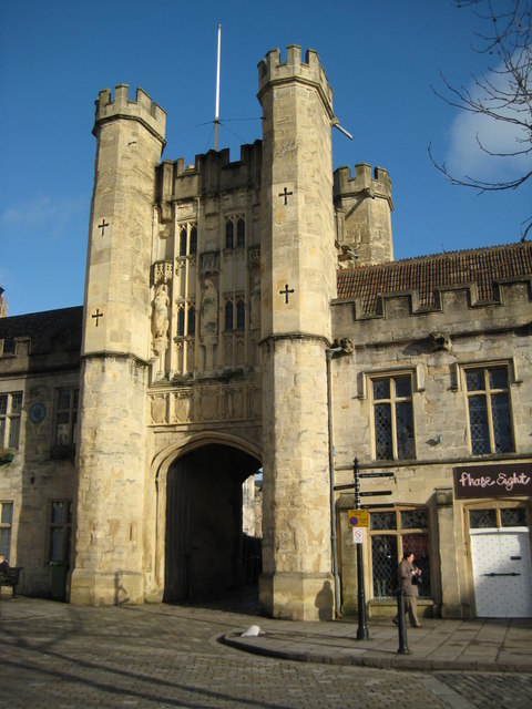 The Bishop's Eye, Wells The Bishop's Eye is the gatehouse to the Bishop's Palace in Wells. It was built around 1450 and provides access from the Market Place.